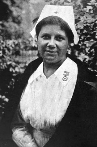 Black-and-white photograph of a woman dressed in a nurse's uniform, from 1921.